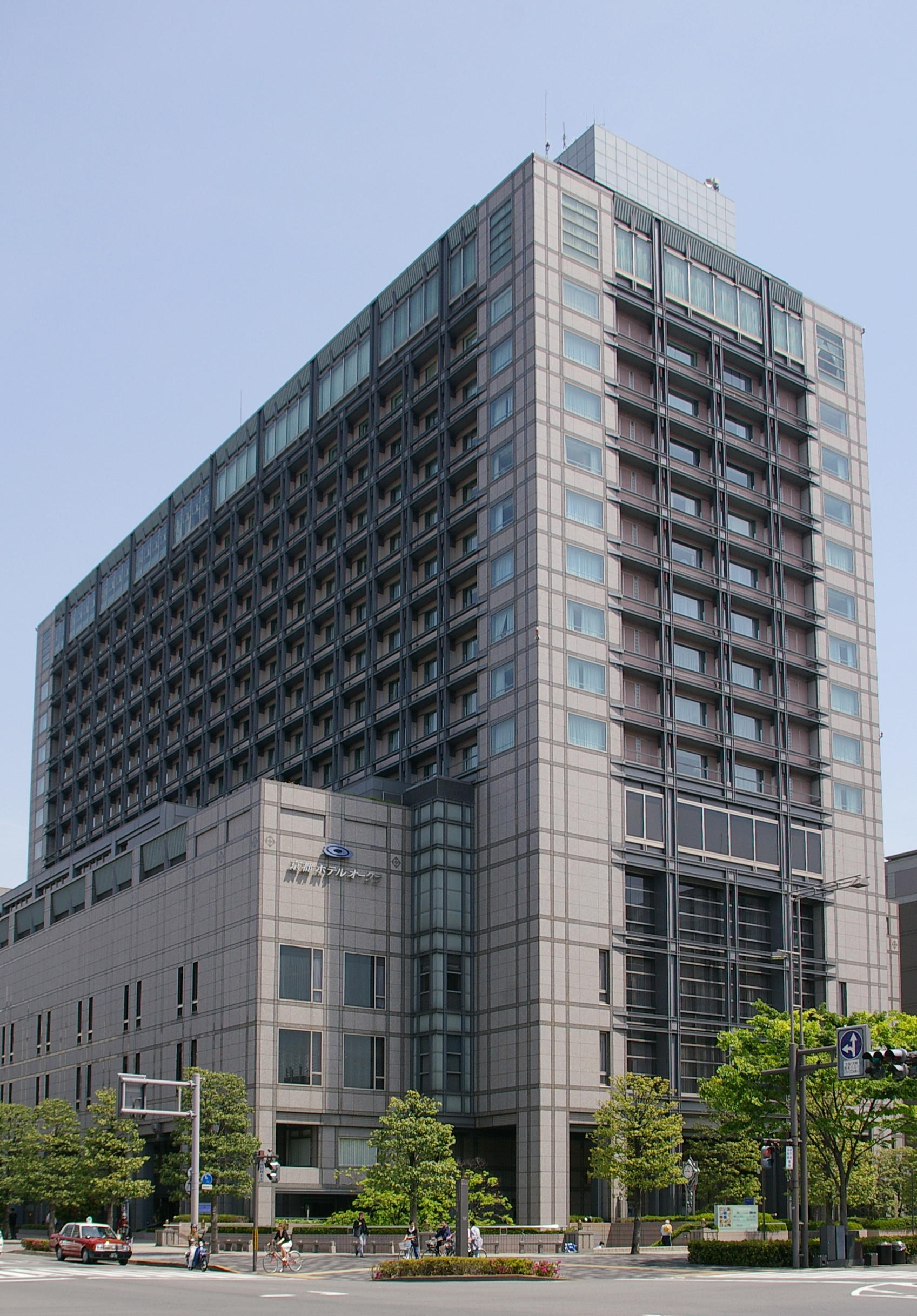 Photograph of Kyoto Hotel Okura in Nakagyo-ku, Kyoto, Kyoto Prefecture, Japan.